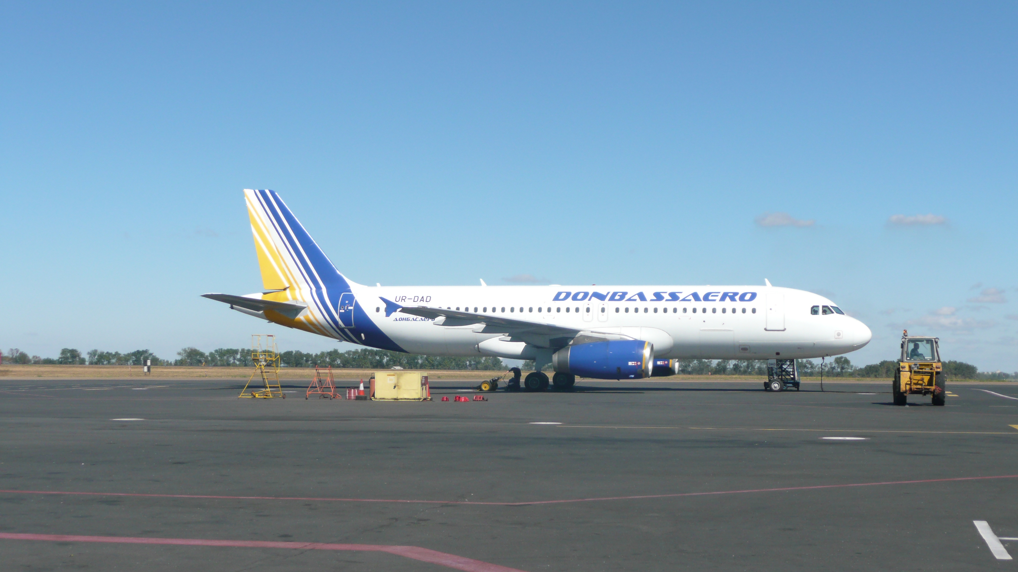 Donbassaero Airplane at Donezk International Airport